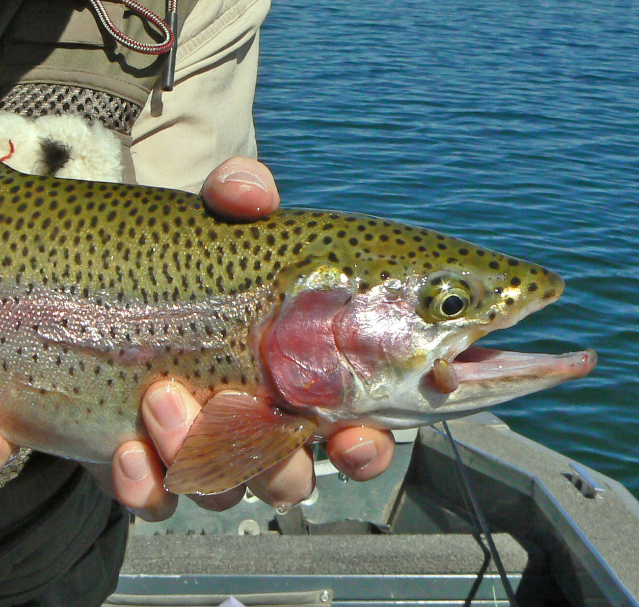 caught & released rainbow trout - see healed mouth extension